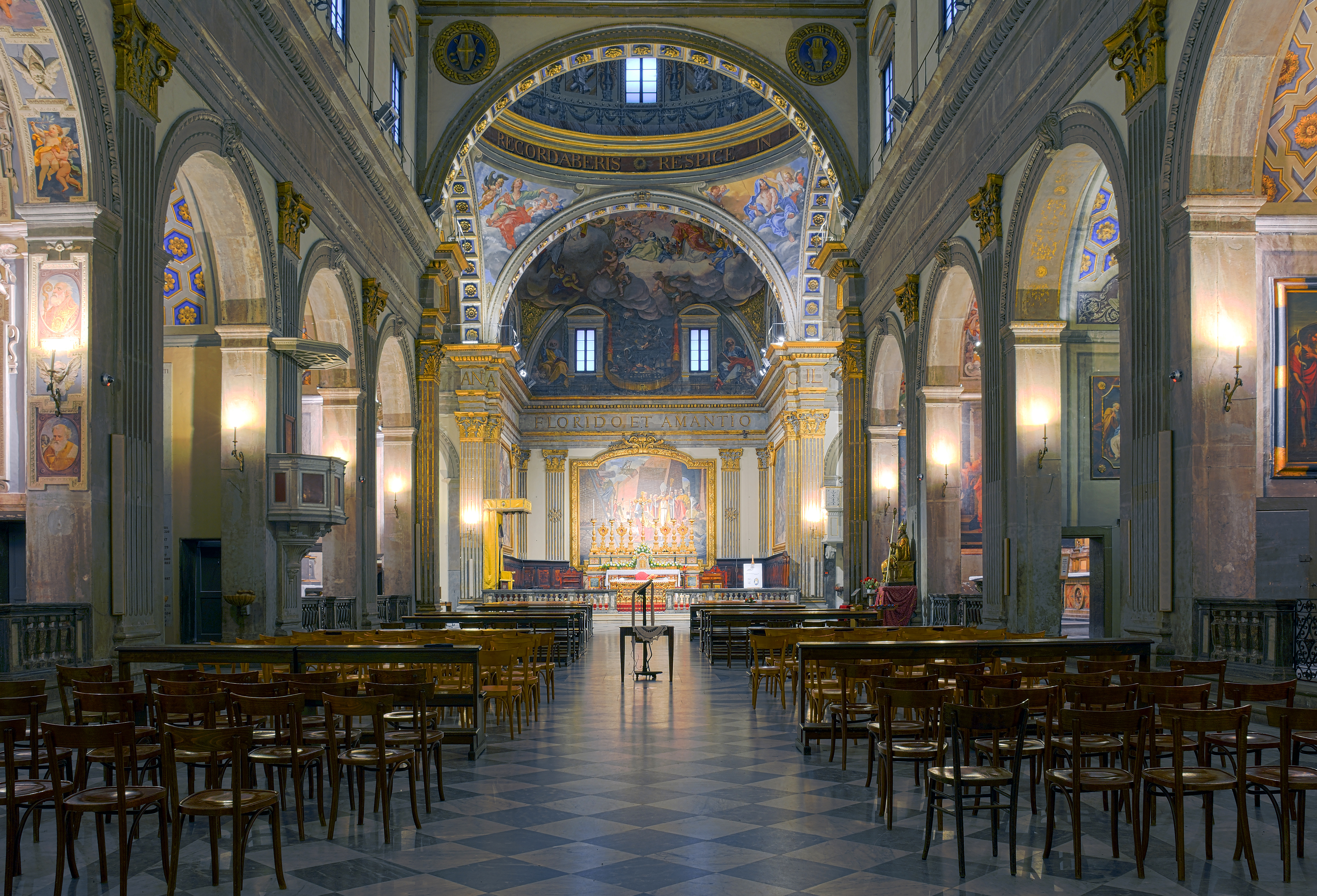 Duomo di Città di Castello - Intern